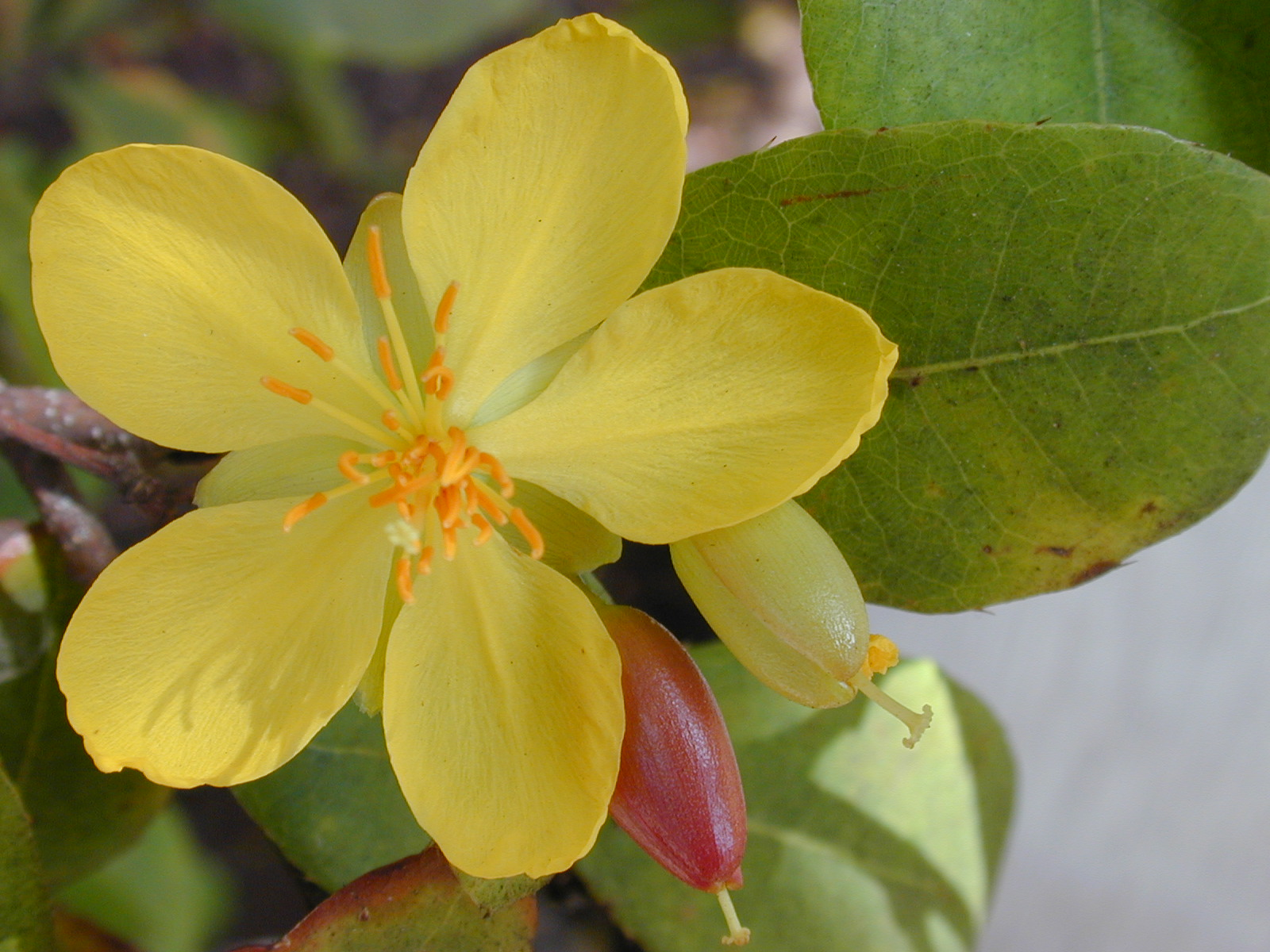 Ochna thomasiana (flower). Location: Maui, Lahaina